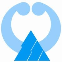 Namerikawa Toyama chapter